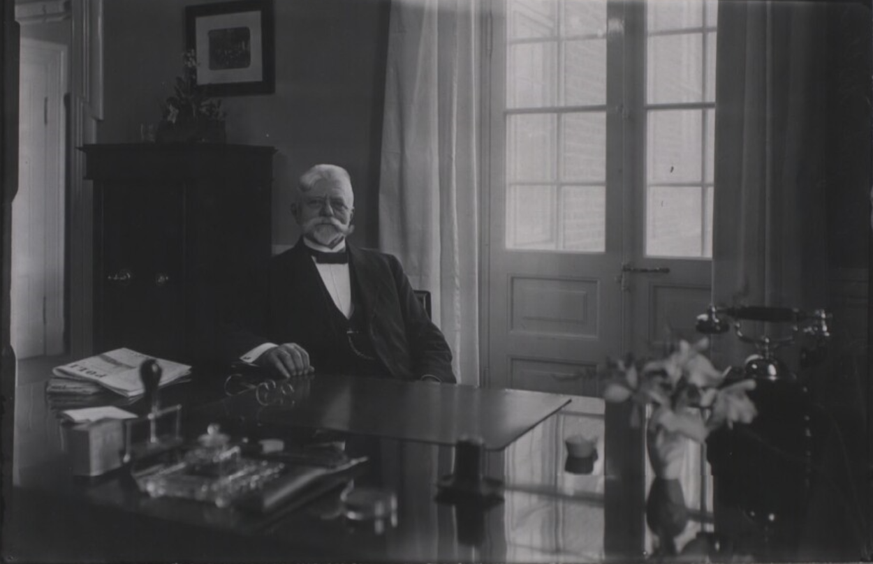 Rogert Damgaard, architect and "sagkyndig direktør" of Østifternes Kreditforening